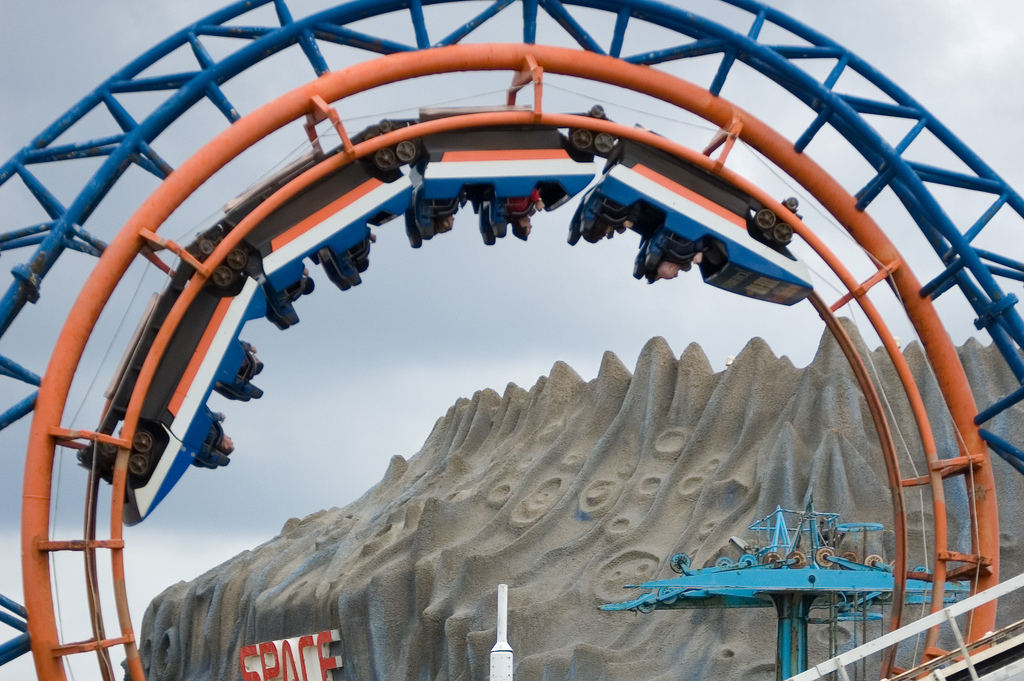 Picture in public domain - All Rights Released